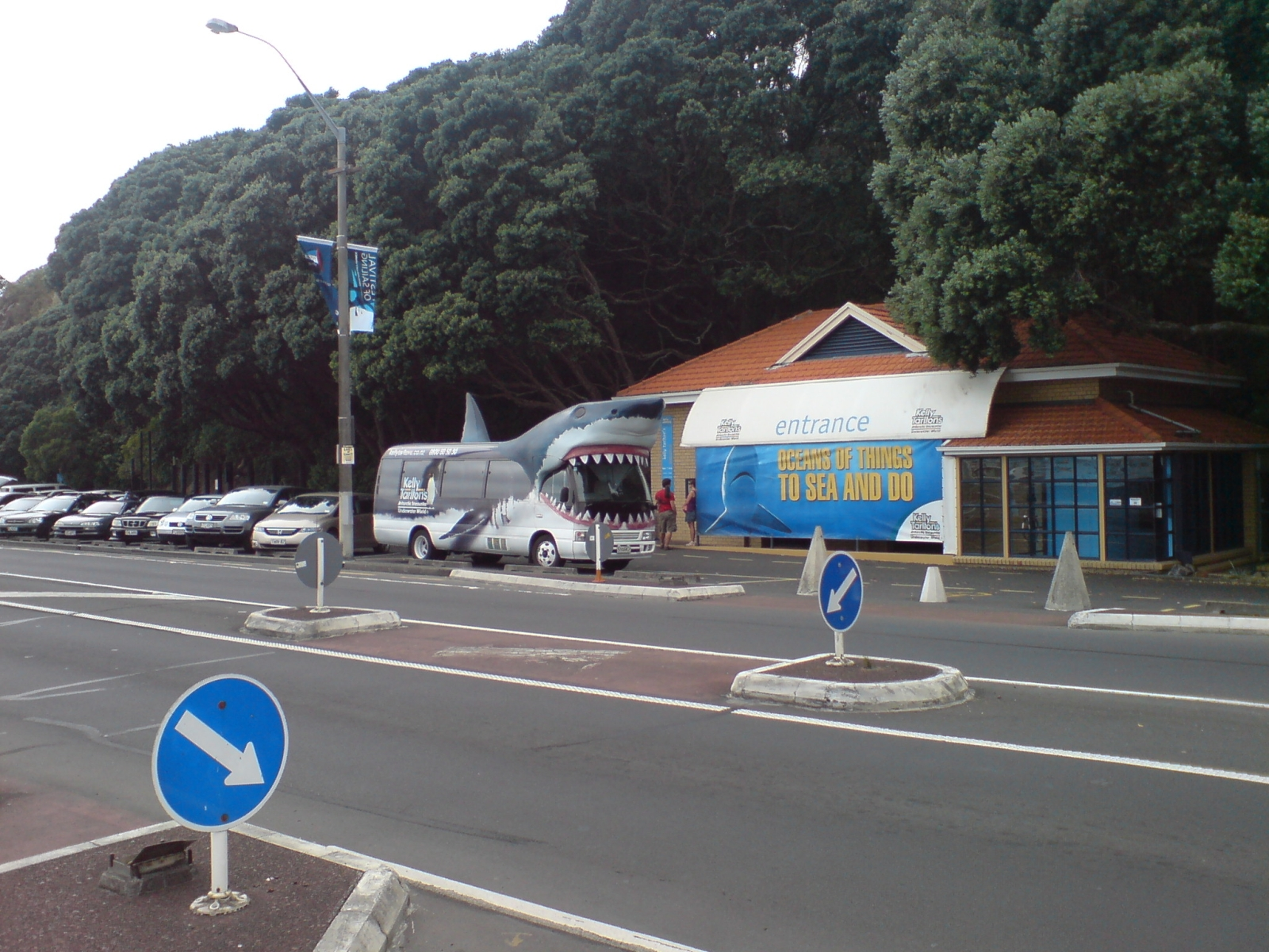 Kelly Tarlton's Underwater World in Auckland, New Zealand. Their promotional shark bus.